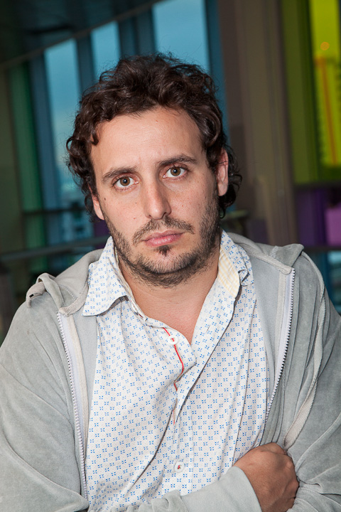 Diego Lerman, director of the film The Invisible Eye (La mirada invisible) at the 2011 Miami International Film Festival showing at the Regal 10, 03/10/2011